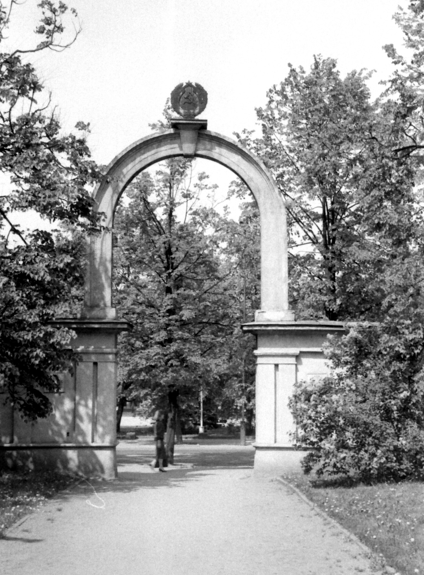 Coat of arms of Soviet Lithuania in Šiauliai, Lithuania, 1990